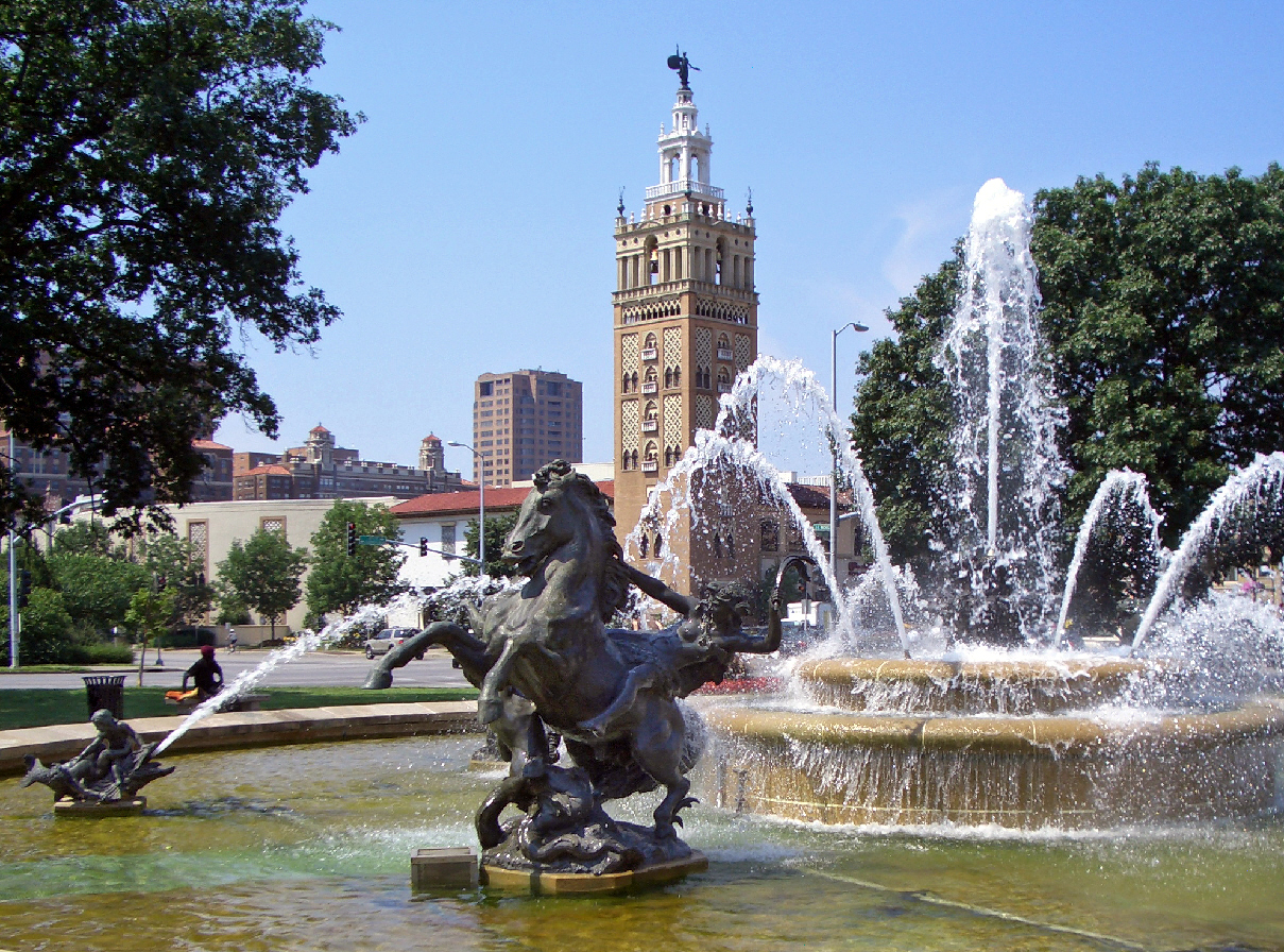 J.C. Nichols Fountain by Henri-Léon Gréber (1910), at the Country Club Plaza, Kansas City, Missouri The fountain was created in Paris by sculptor Henri-Léon Gréber (1855-1941) in 1910 for the Clarence H. Mackay Estate called "Harbor Hill" in Roslyn, New York (landscape designed by his son Jacques Gréber); installed in Kansas City, Missouri in 1960. The allegorical statuary of the four large, cast bronze equestrian figures reportedly represent four great rivers of the world: the Rhine, the Seine, the Volga and the Mississippi.